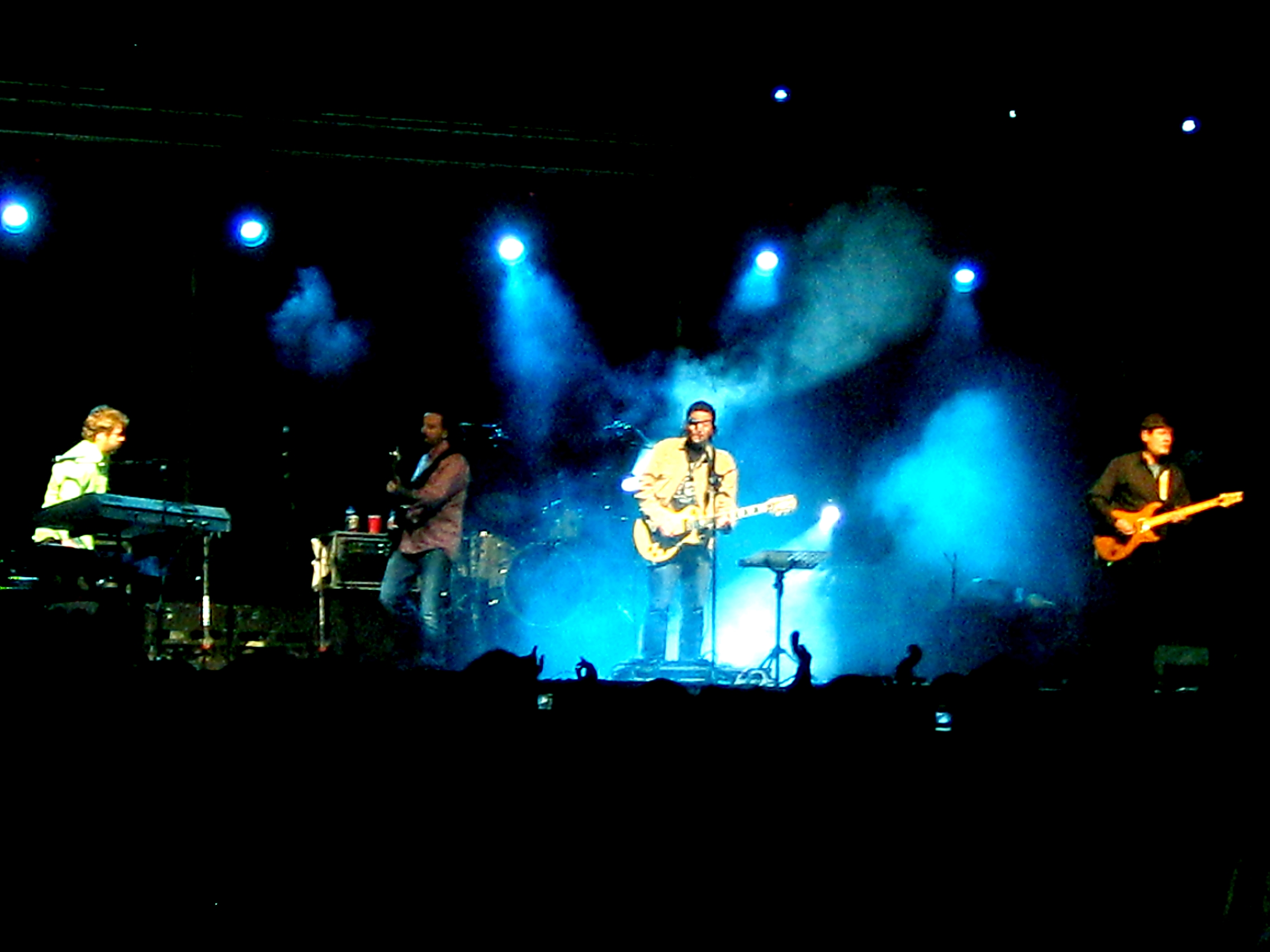 One of the spanish madrilenian groove promoters band called Los Secretos live at the spanish square of Palma de Mallorca, Spain.